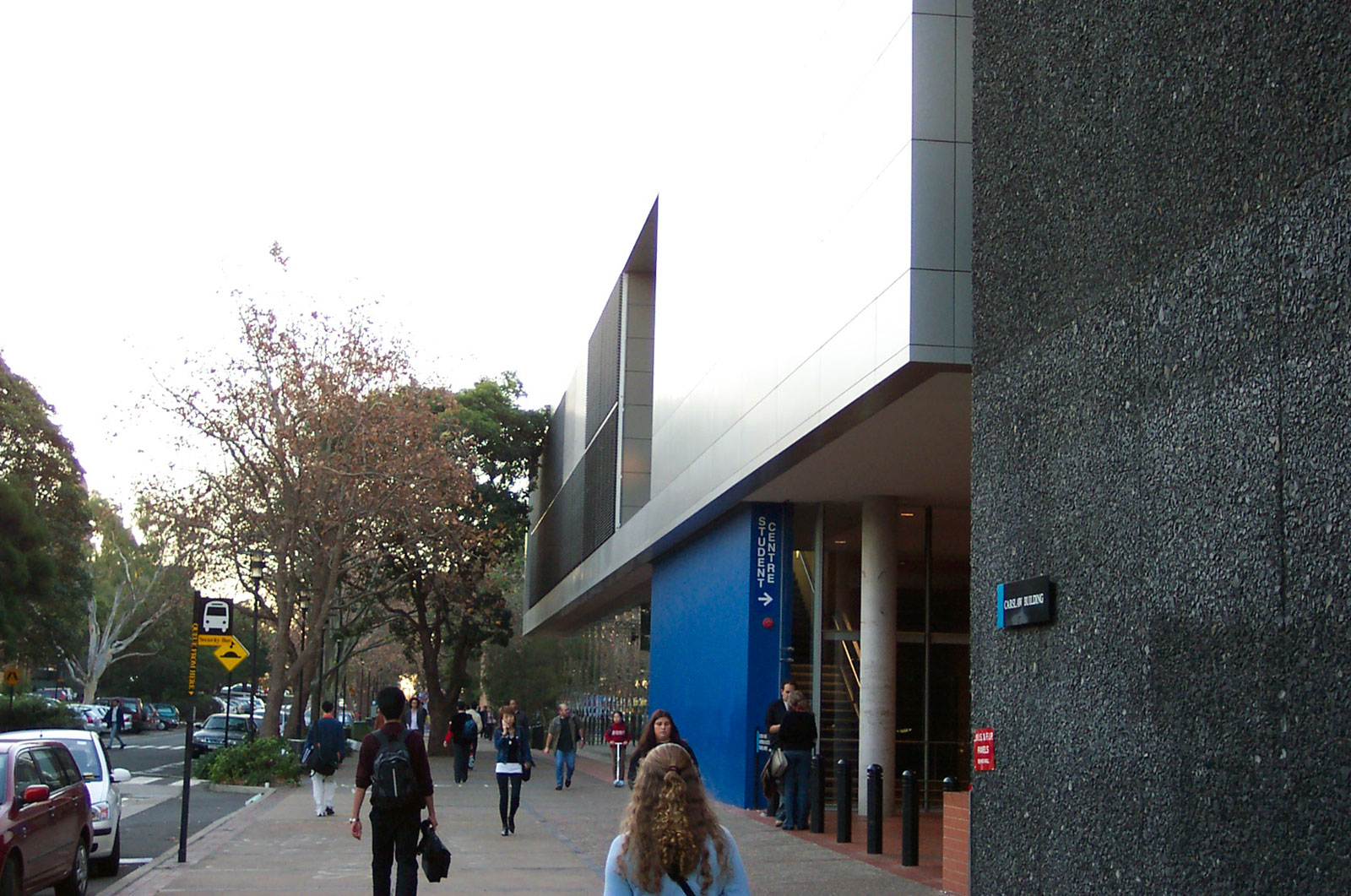 University of Sydney: Eastern Avenue and Carslaw buildings Taken by Enoch Lau on 8 June 2004. As a courtesy, please let me know if you alter this image or this image description page. Original filename was 100_2818.JPG.